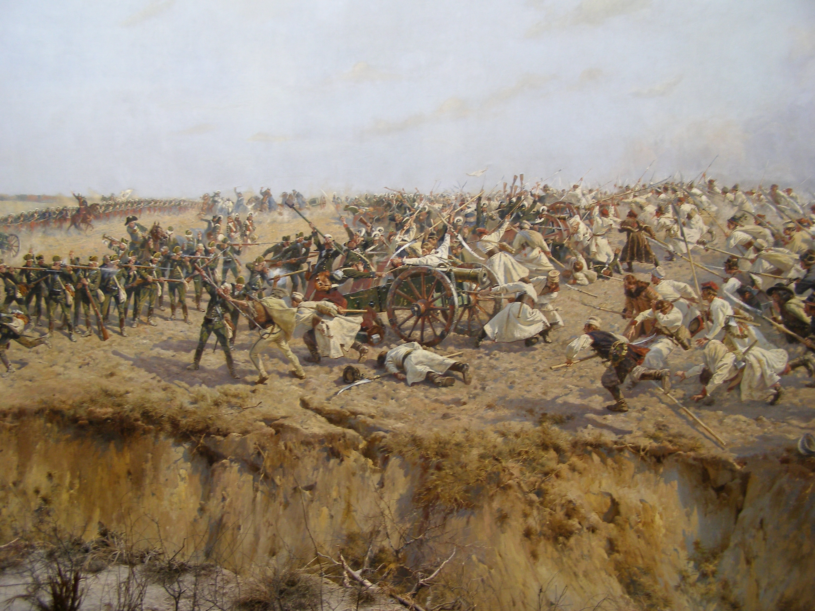 A fragment of the Racławice Panorama